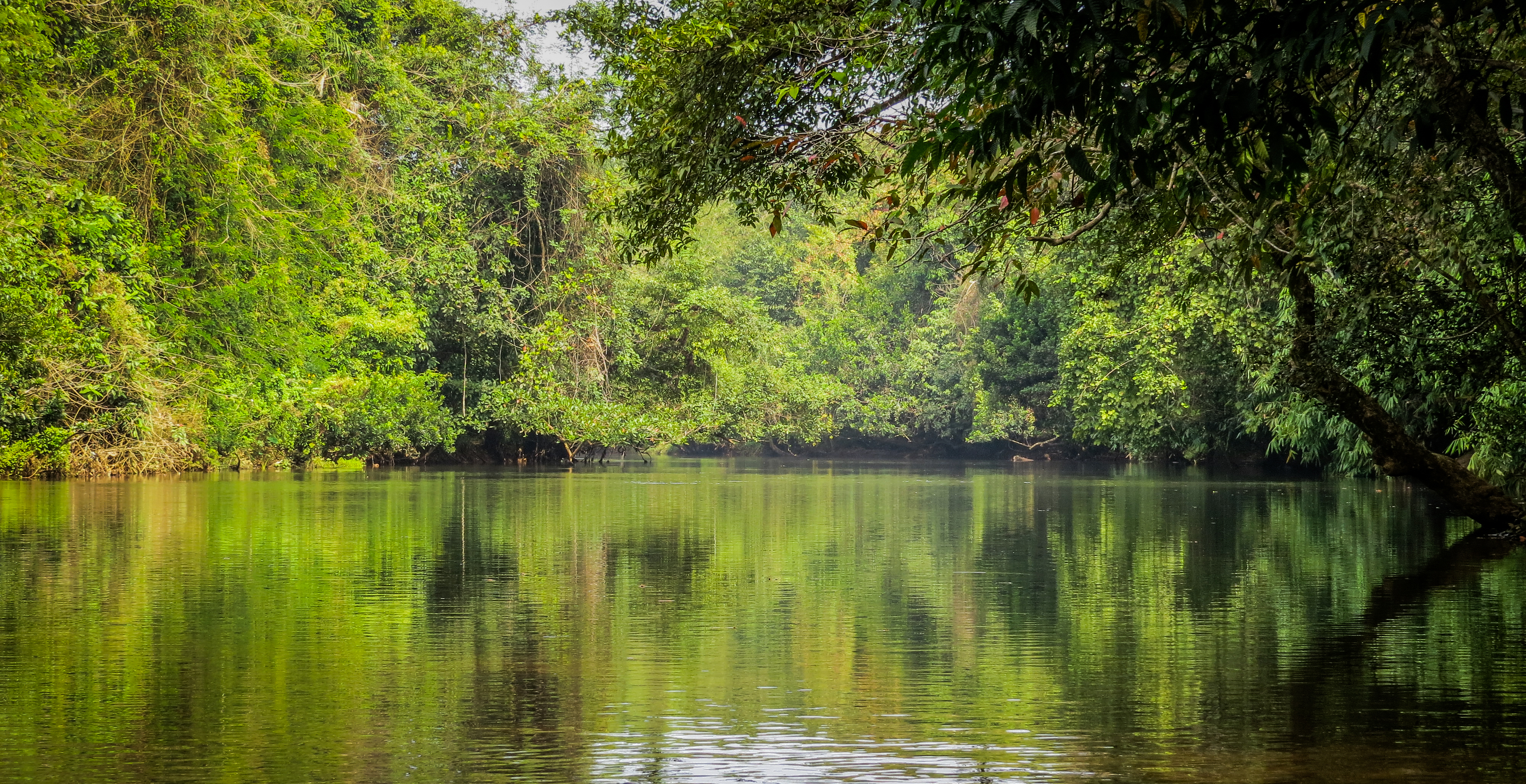 Adavi Eco Tourism with drafting and an awsomee greenery located in Pathanamthitta district of Kerala,India